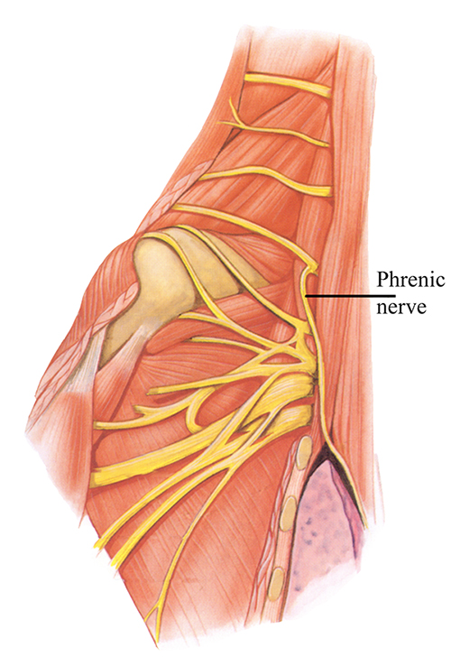 Diagram showing position of the phrenic nerve in felines